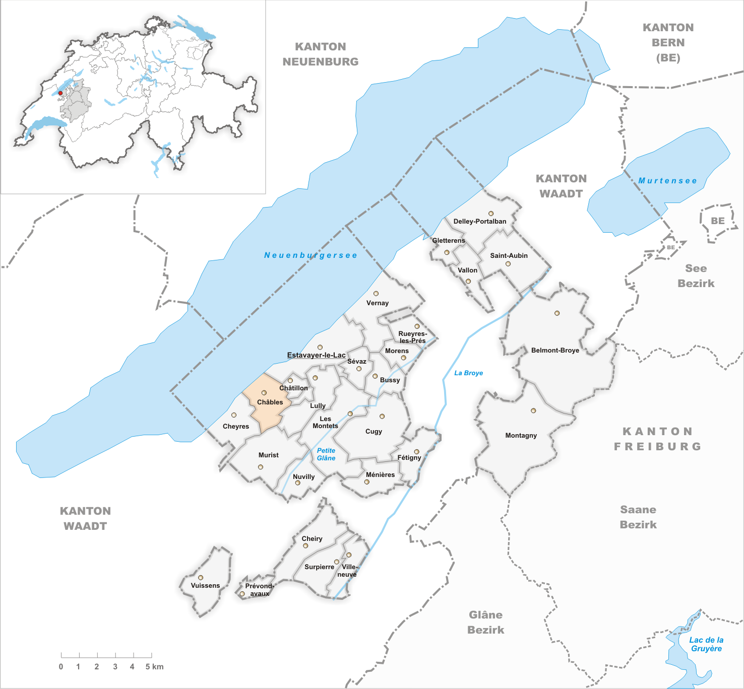 Municipality Châbles